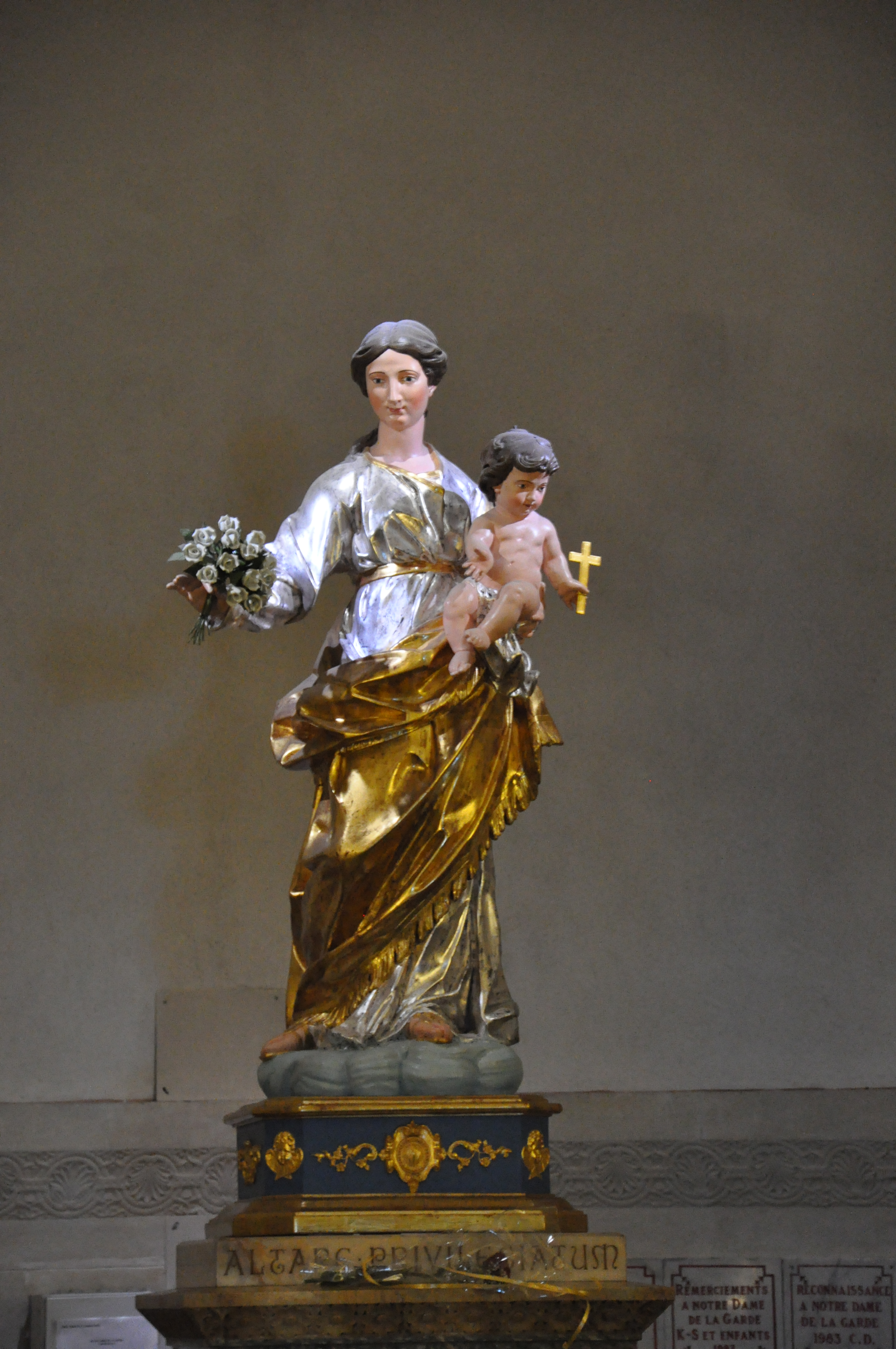 Marseille (France, Provence), golden statue of Madonna and Child in Basilique Notre-Dame de la Garde